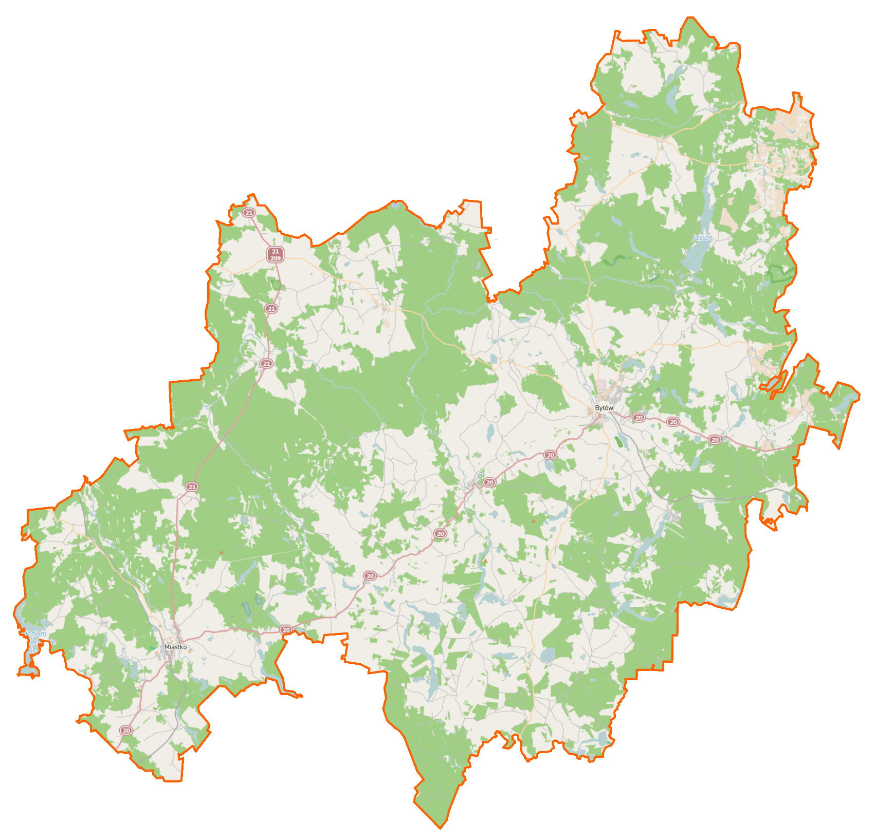 Map of Powiat bytowski, Poland This map of Powiat bytowski was created from OpenStreetMap project data, collected by the community. This map may be incomplete, and may contain errors. Don't rely solely on it for navigation.